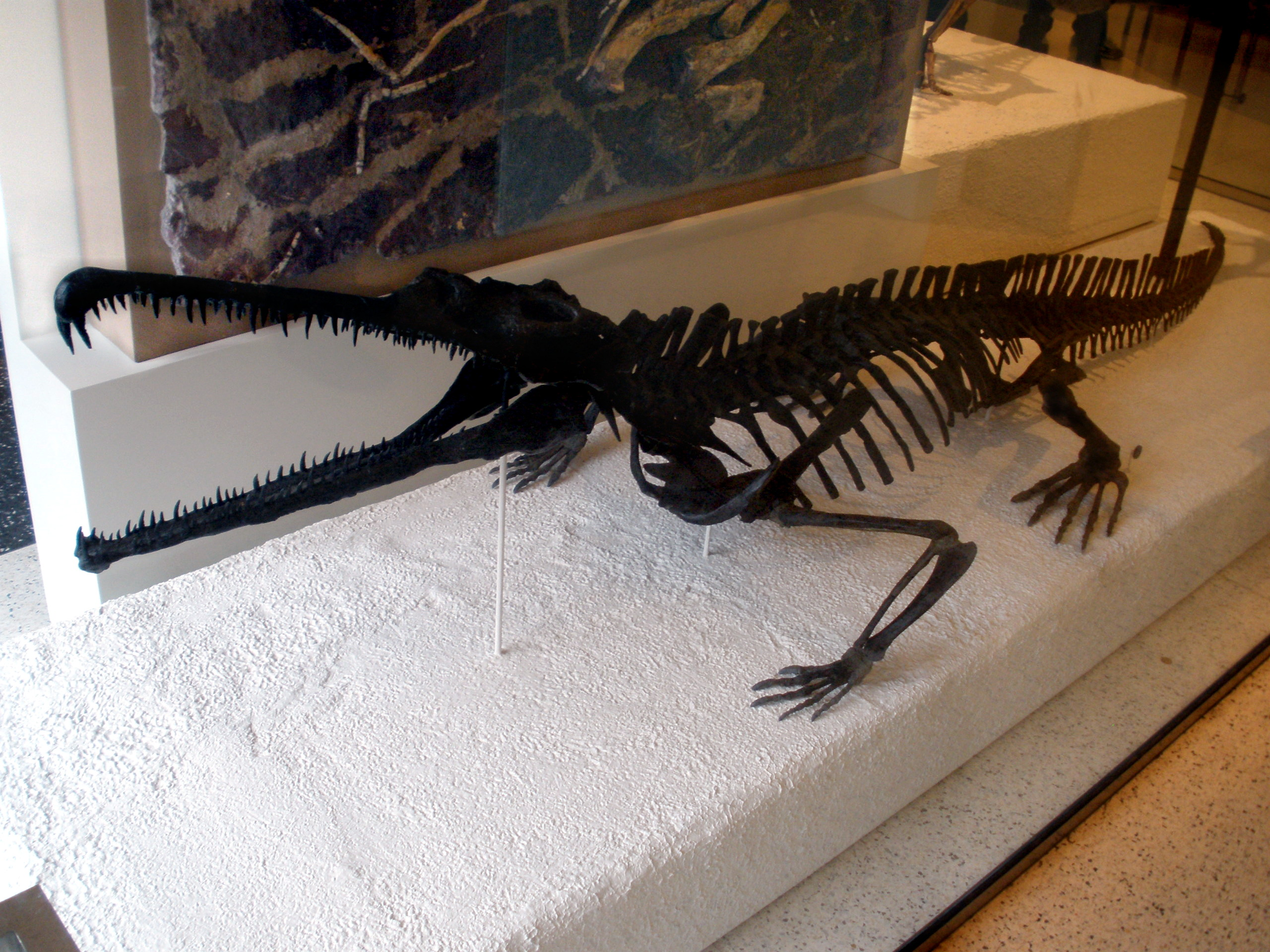 fossil of Rutiodon, an extinct archosaur